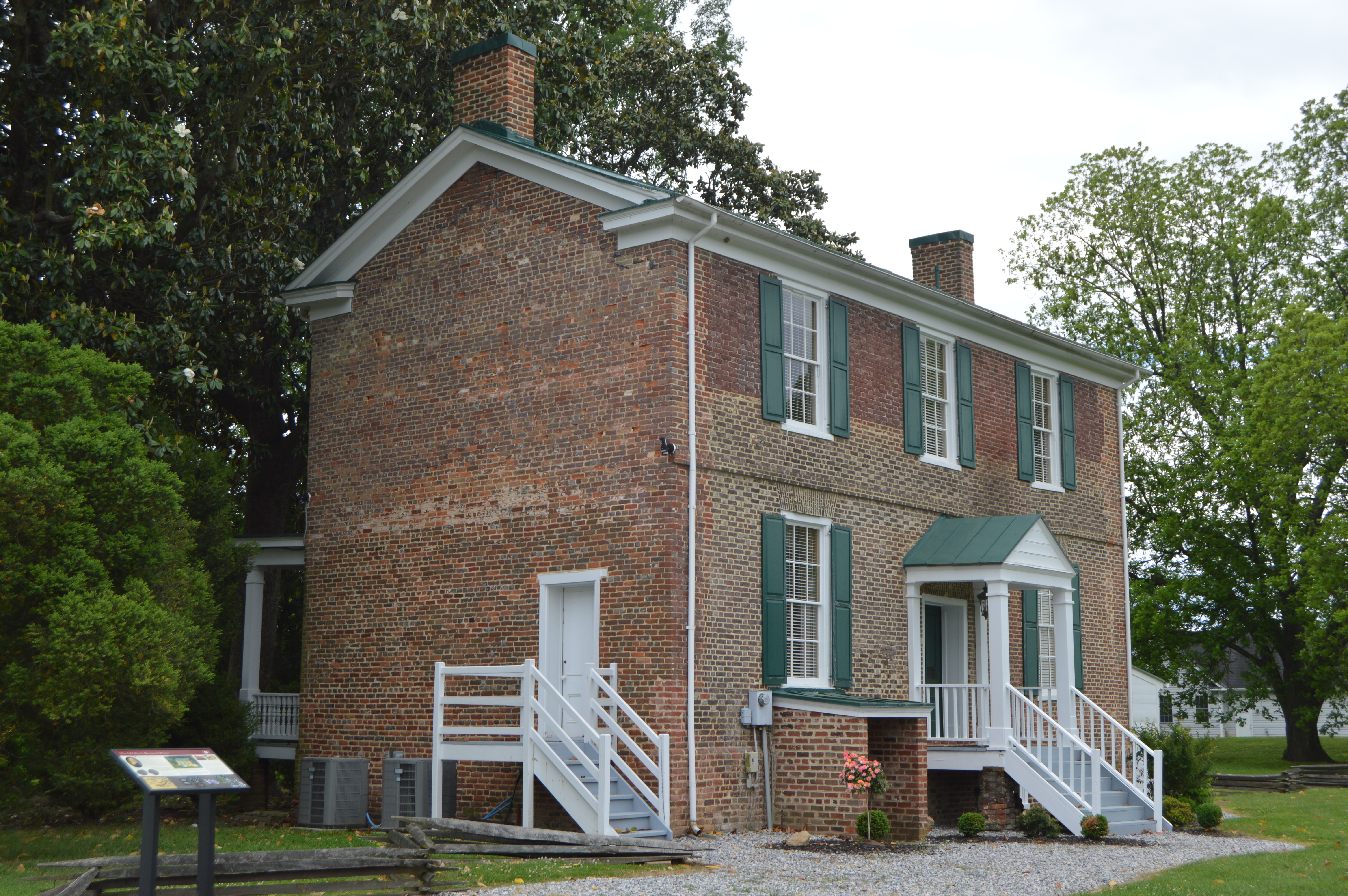 Western side and northern end of the Kennon House, located off Waterfront Drive in Colonial Heights, Virginia, United States. Built in 1879 as a replacement of an identical house on the same site that had been destroyed by fire, it is part of the Conjurer's Neck Archeological District, which is listed on the National Register of Historic Places.